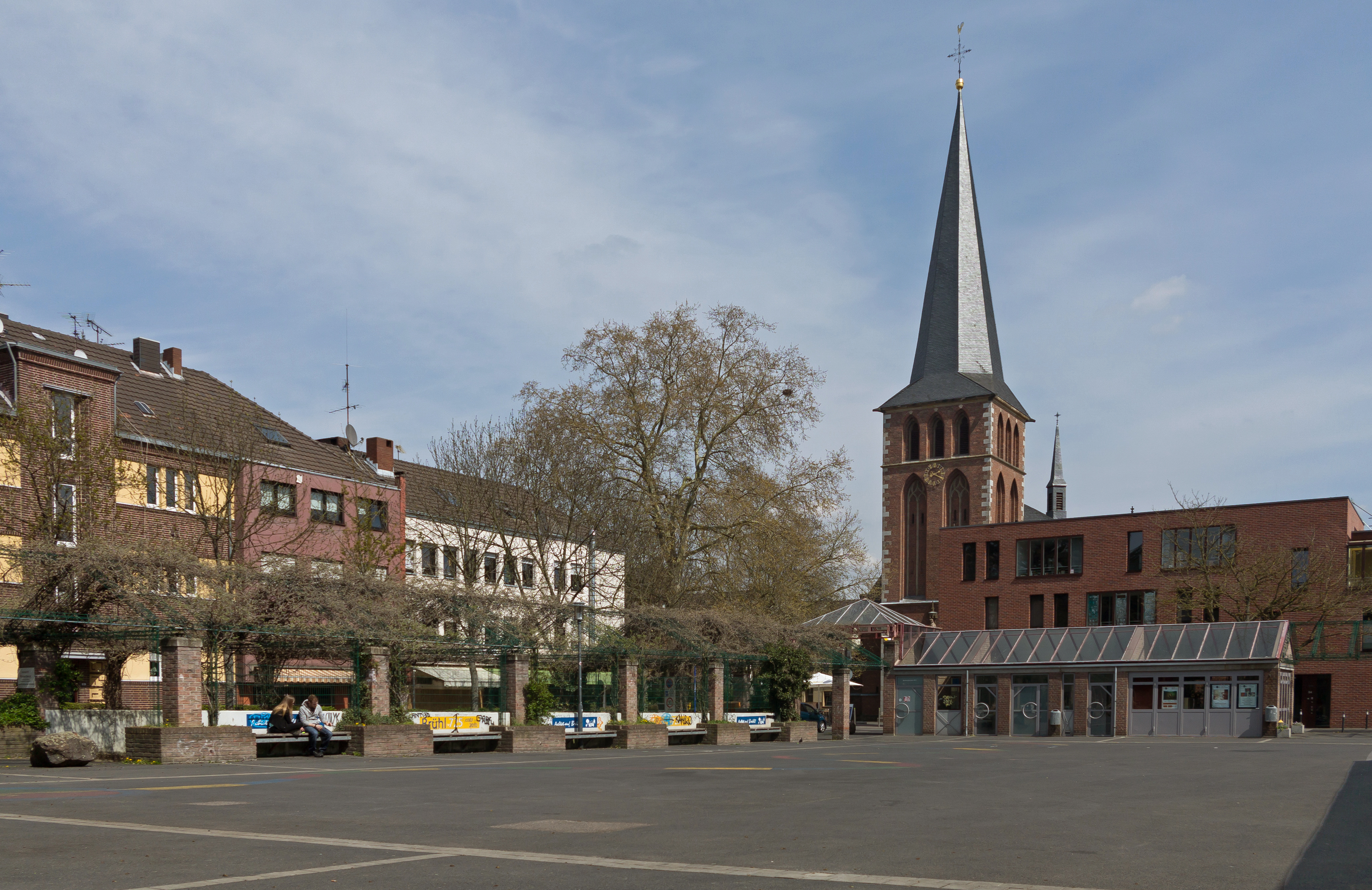 Brühl, church: Pfarrkirche Sankt Margareta